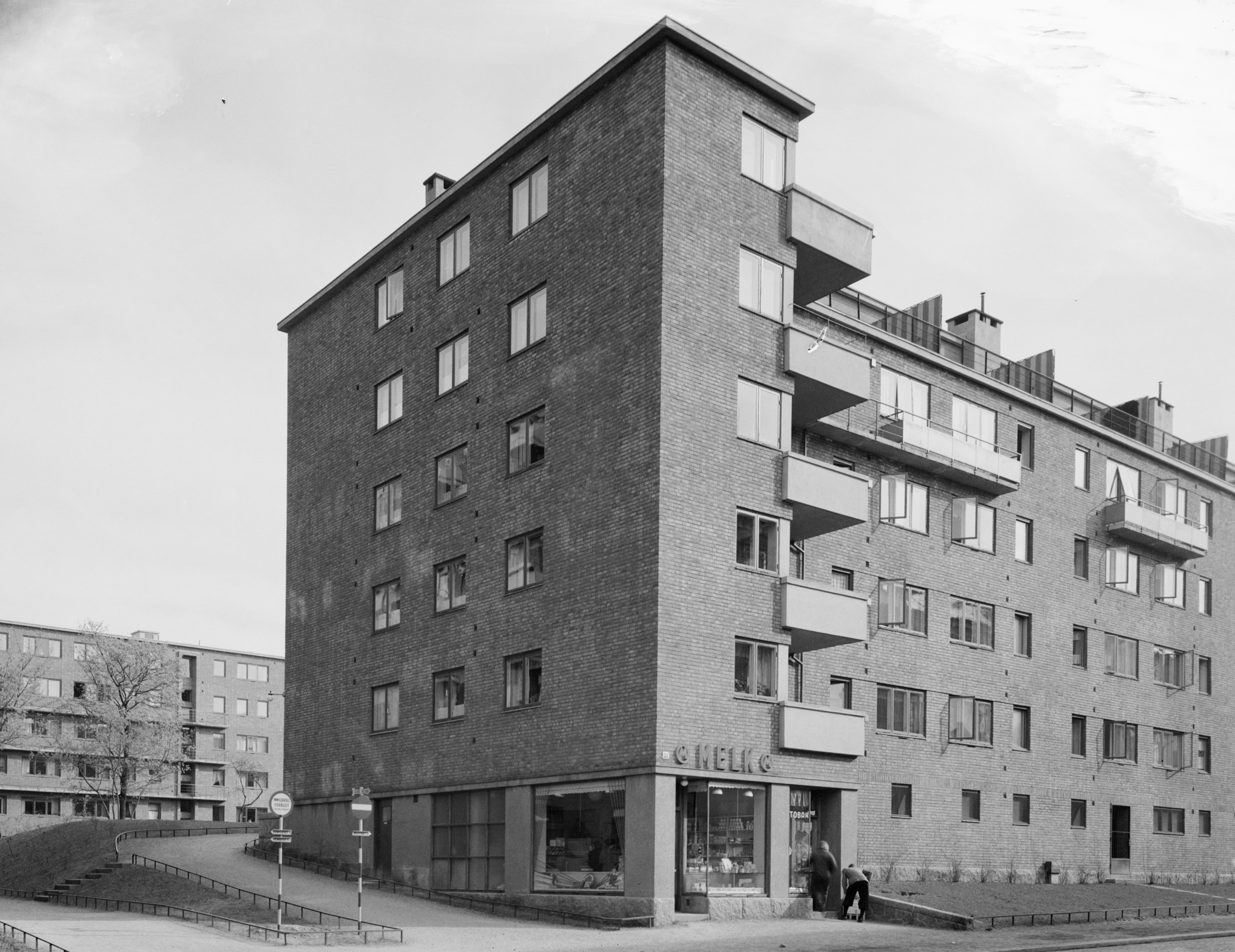 Arkitekturfoto av boligblokker i teglstein i Industrigata i Oslo, med nr. 31 til høyre og Dunkers gate 4 til venstre. Arkitekt: Edgar Smith Berentsen (1895-1982).